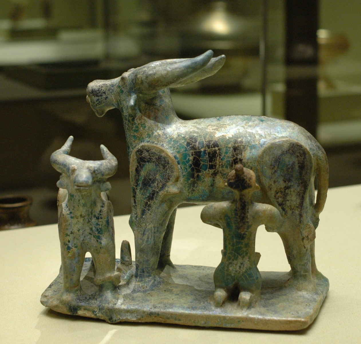 Turkman milking a buffalo, Ayyubid art.